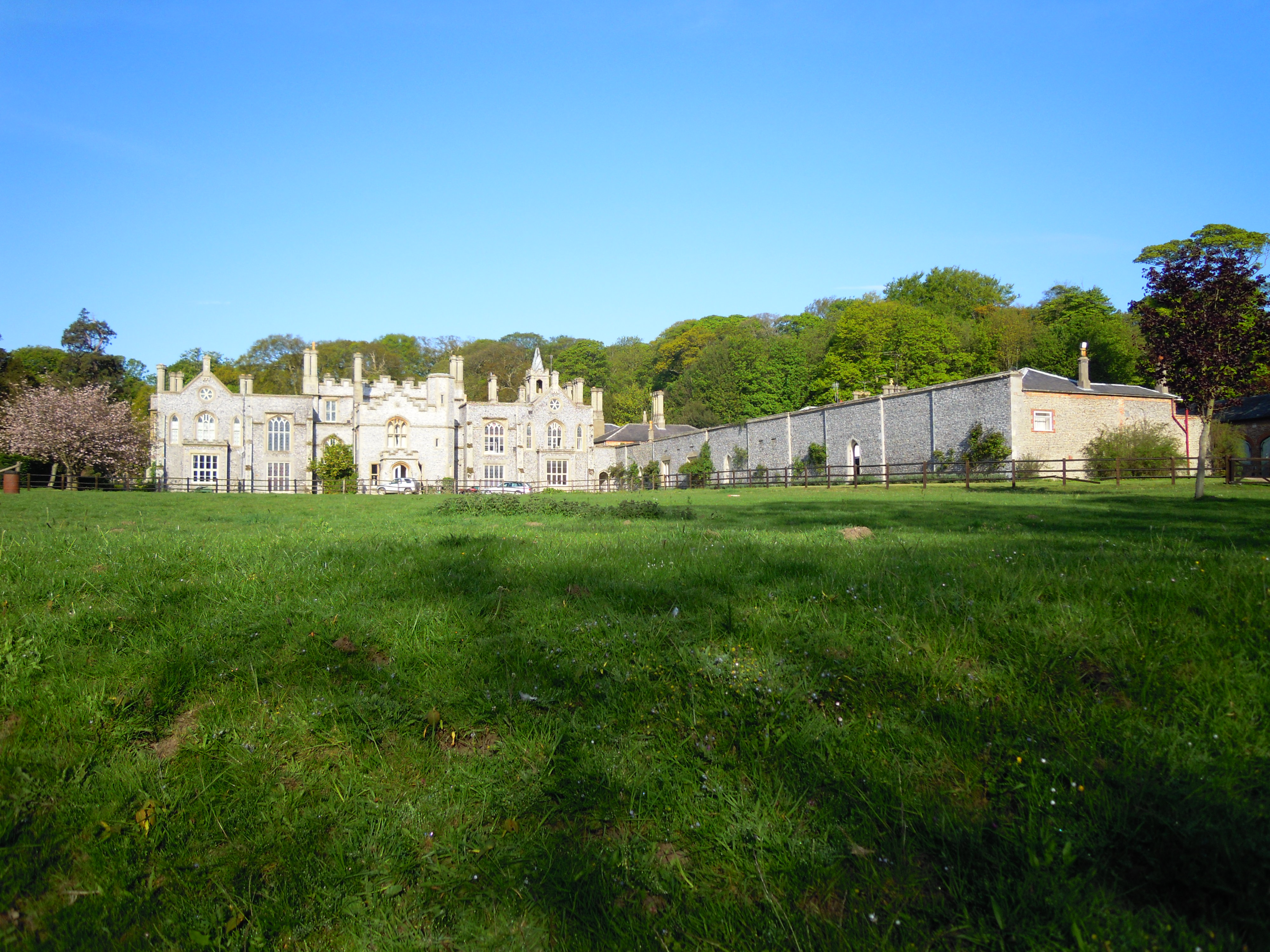 The west elevation of Cromer Hall